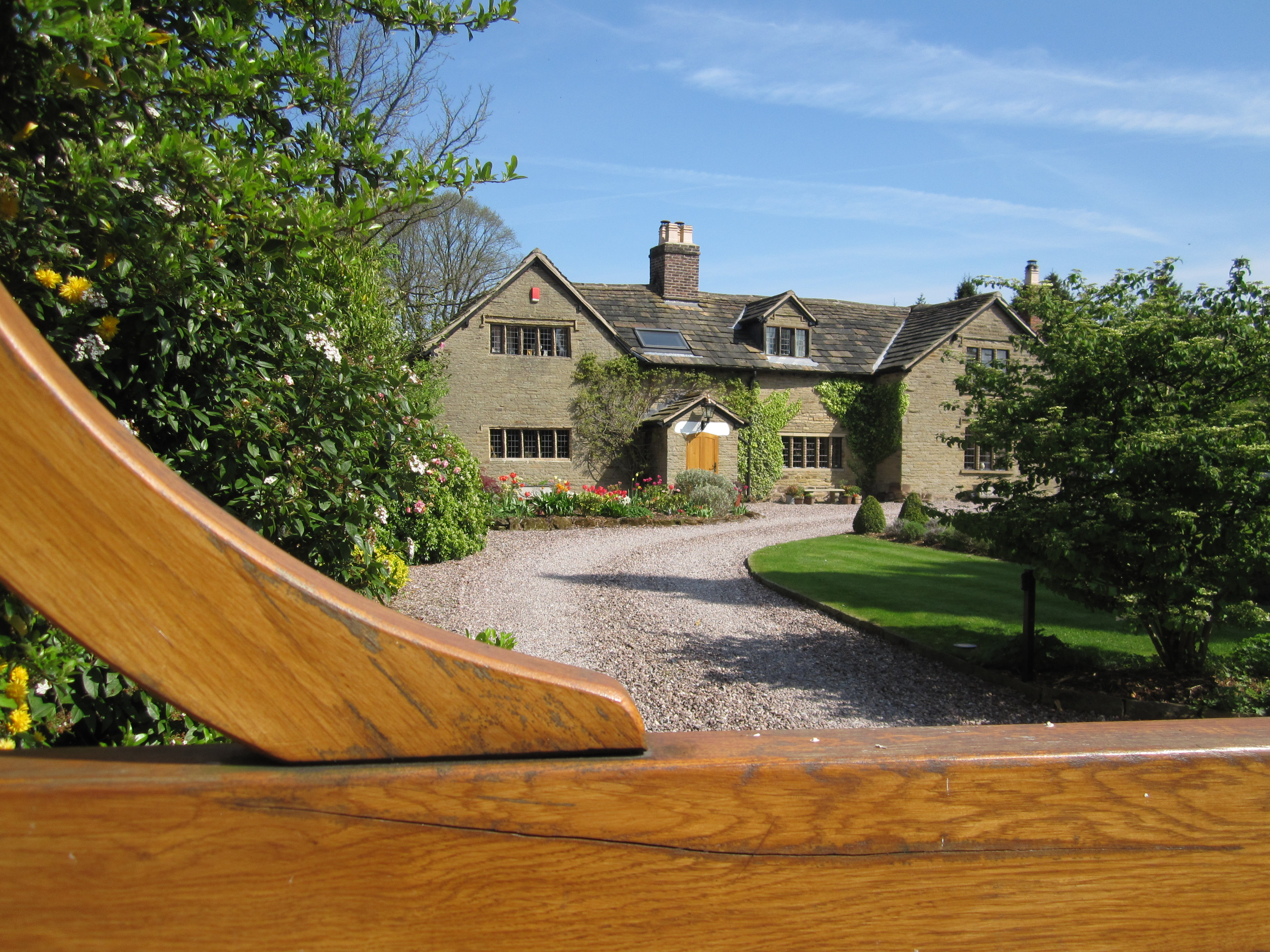 Photograph of Legh Hall Cottage, originally Legh Old Hall, Mottram St Andrew, Cheshire